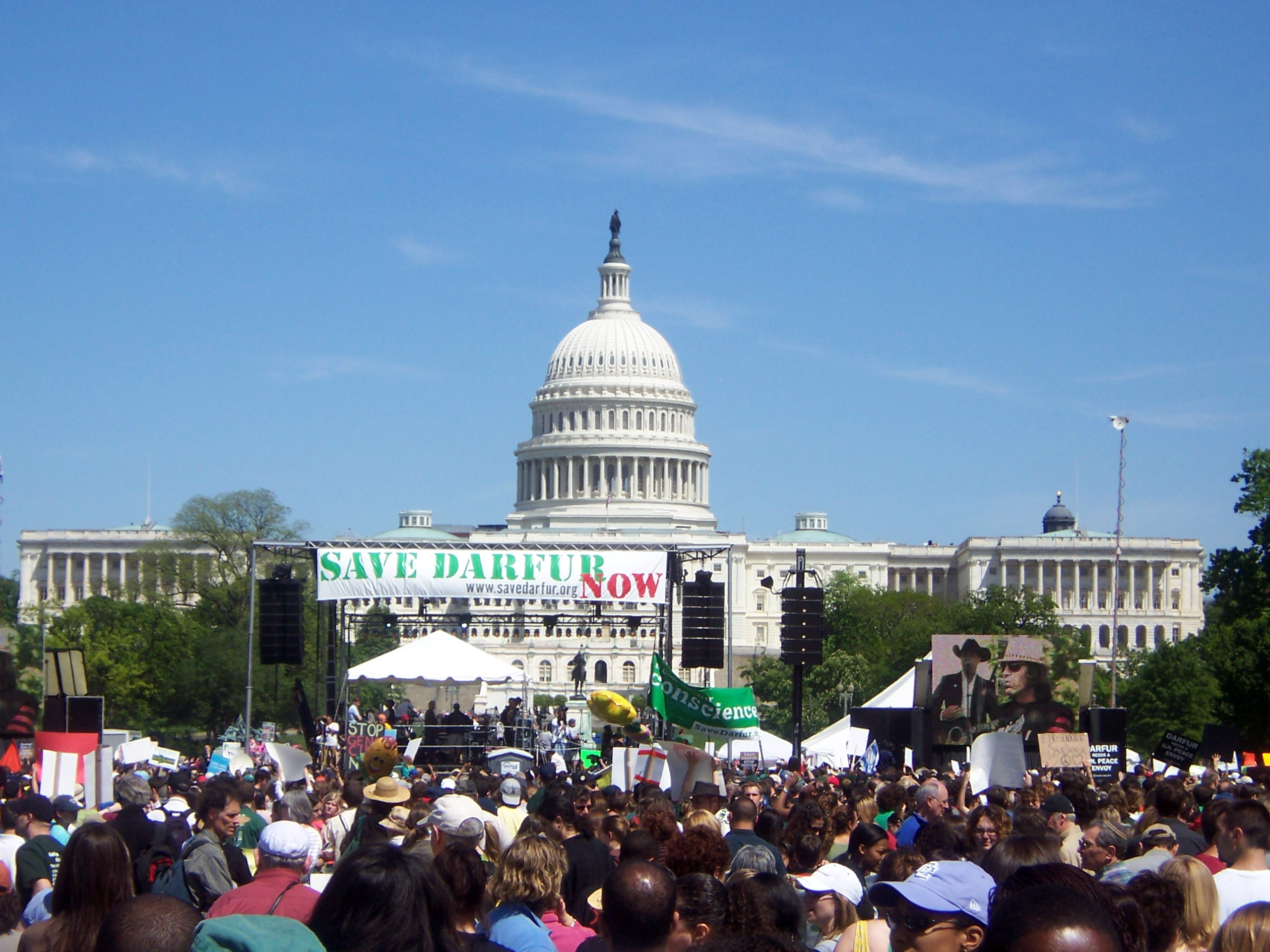 An image of the capitol dome behind the main stage during the rally to save Darfur.